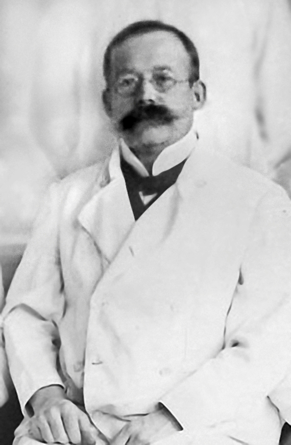 Wolfgang Stock (1874-1956), German ophthalmologist